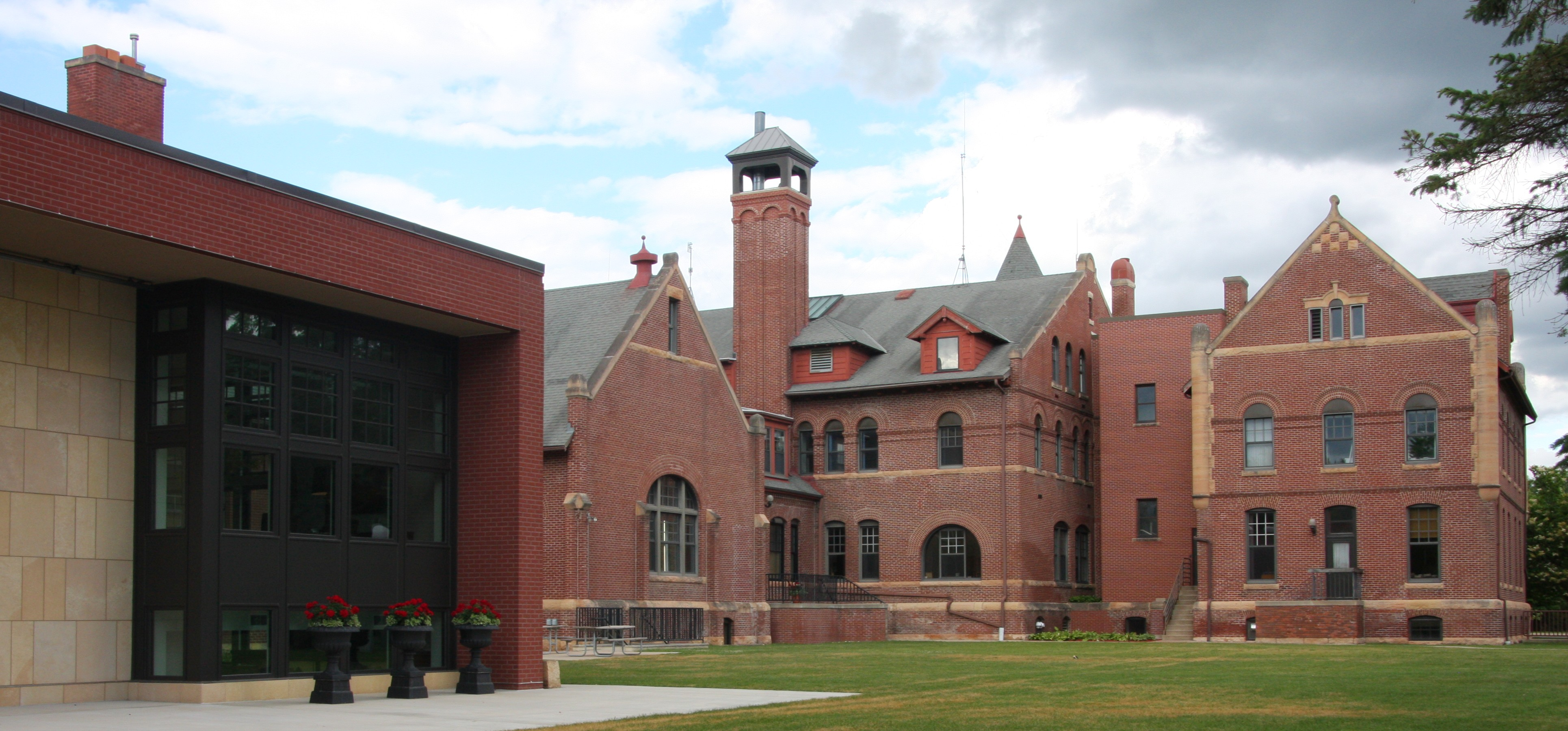 View from the southwest of the main building of the former state orphanage, serving as a museum, art center, and public buildings Owatonna, Minnesota, United States